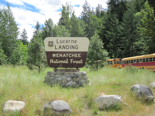 Picture of the forest service sign at Lucern Landing, WA.